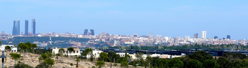 View of Madrid (Spain) from Somosaguas (in Pozuelo de Alarcón).